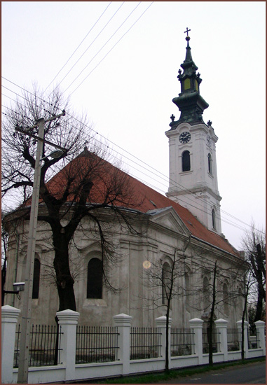 Serbian Orthodox Church of [:en:Futog], near Novi Sad, Serbia/L'église orthodoxe serbe de Futog, près de Novi Sad, Serbie